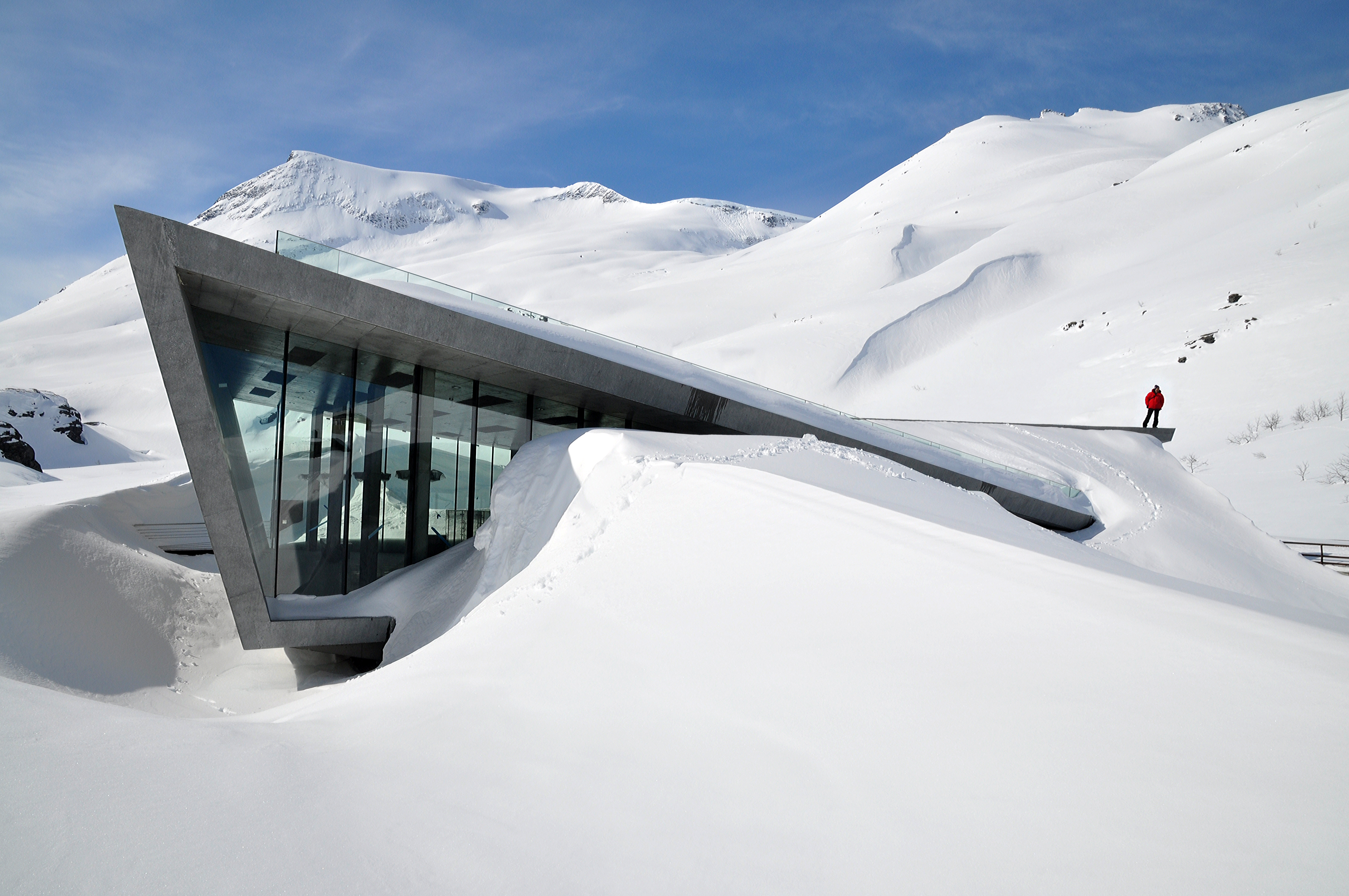 The project enhances the experience of the Trollstigen plateau’s location and nature. Thoughtfulness regarding elements and materials underscore the site’s nature and character, and well-adapted, functional facilities augment the visitor experience.